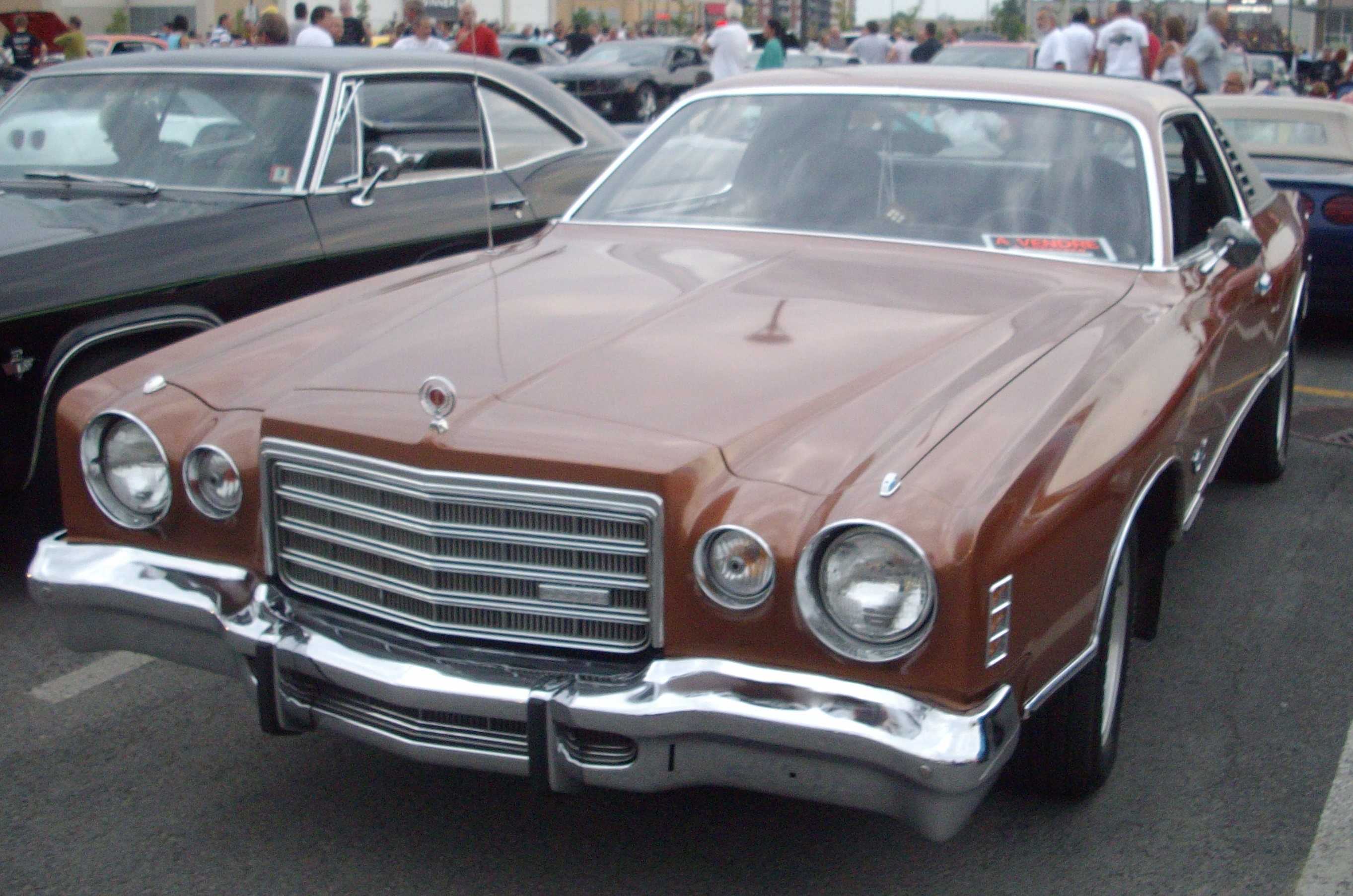 1975 Dodge Charger photographed in Laval, Quebec, Canada at Les chauds vendredis.